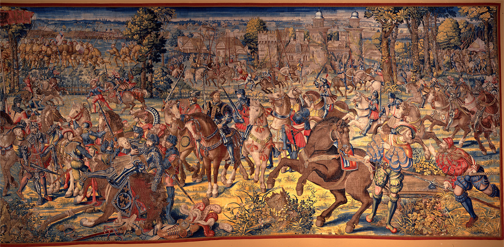 manufactured in Bruxelles